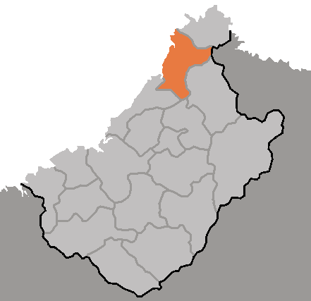 Map of Chasong, Chagang-do, DPRK, 2006